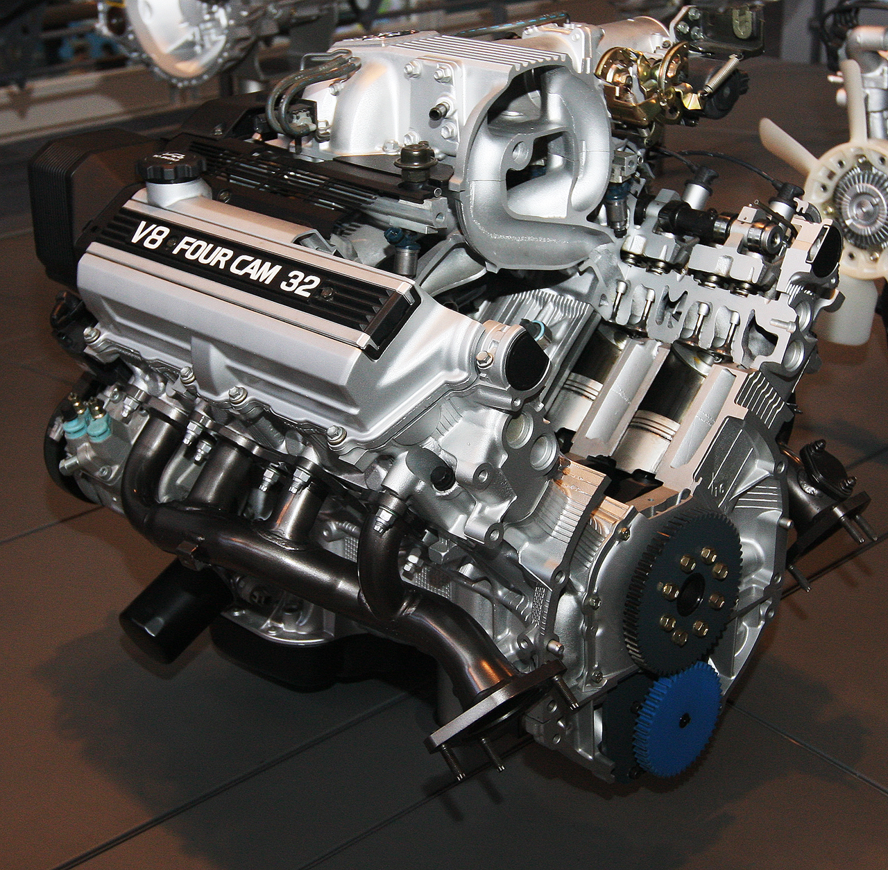 1989 Toyota 1UZ-FE Type engine. V8 3,968cc.